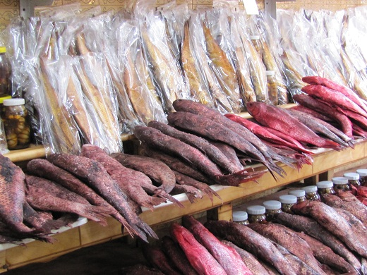 بازار ماهی فروشان